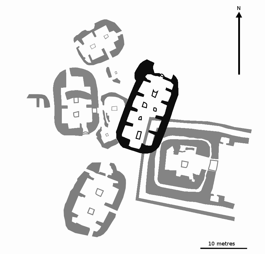 Plan of the Ness of Brodgar with structure #8 highlighted.